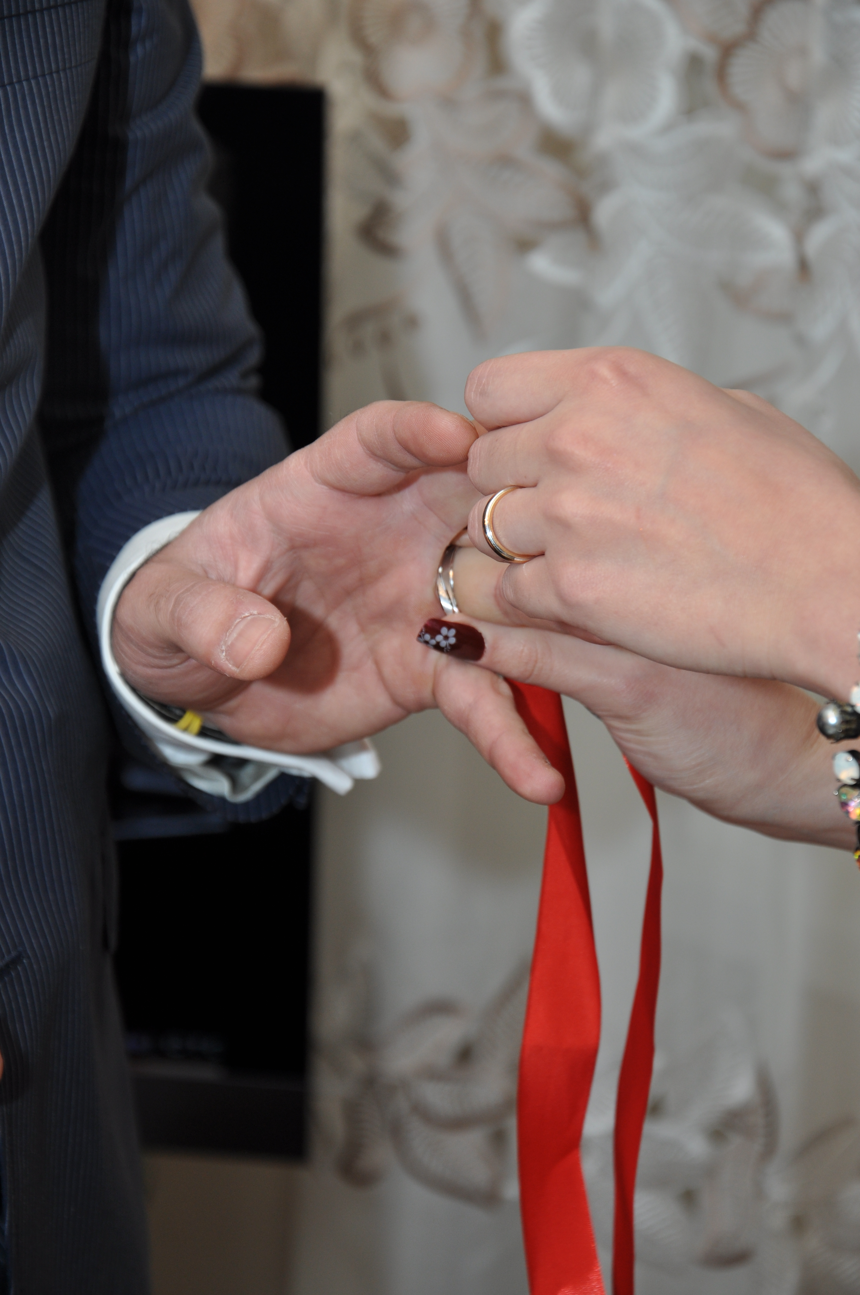 Engagement rings, Azerbaijan traditions